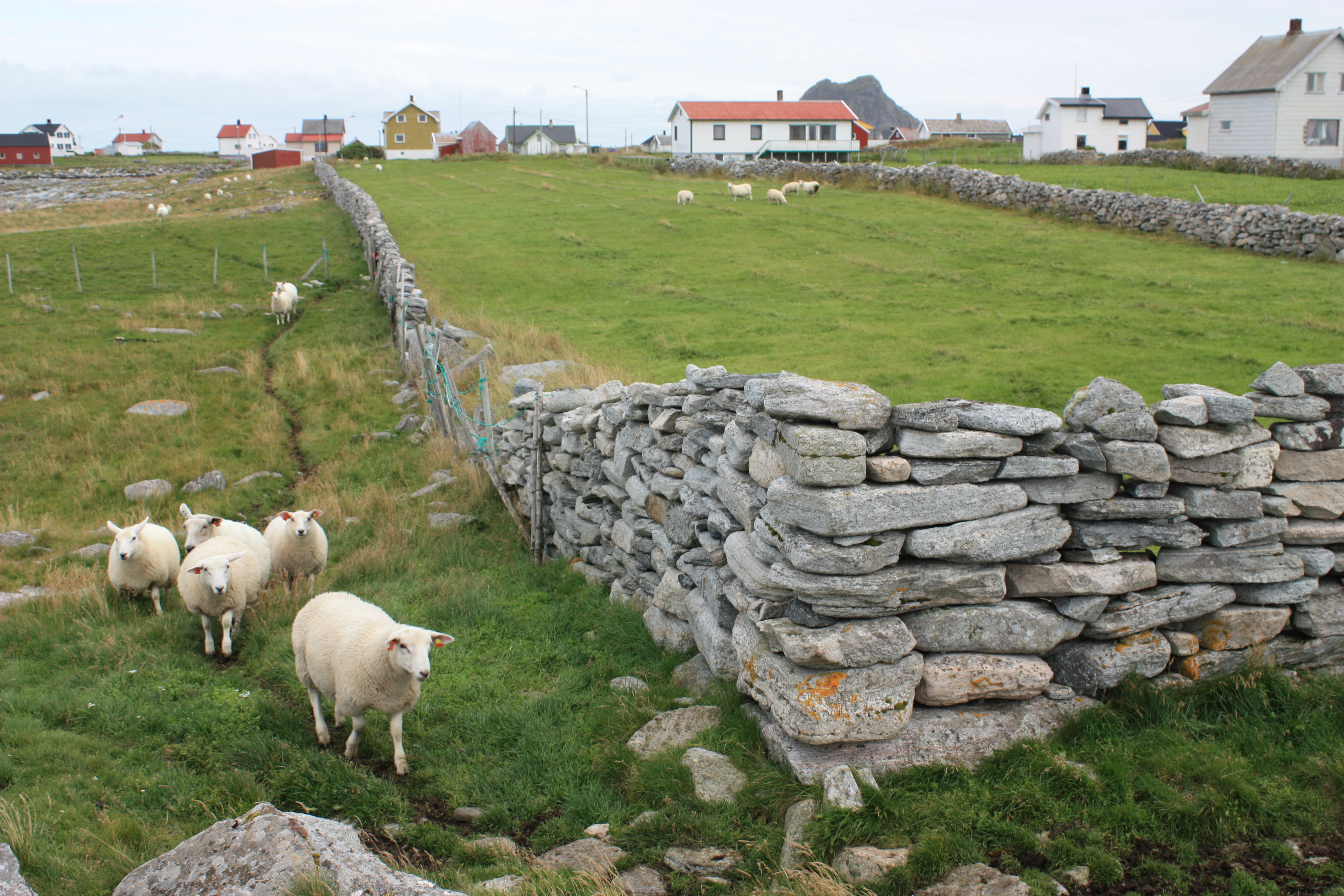 dry stone wall Røst Lofoten Norway